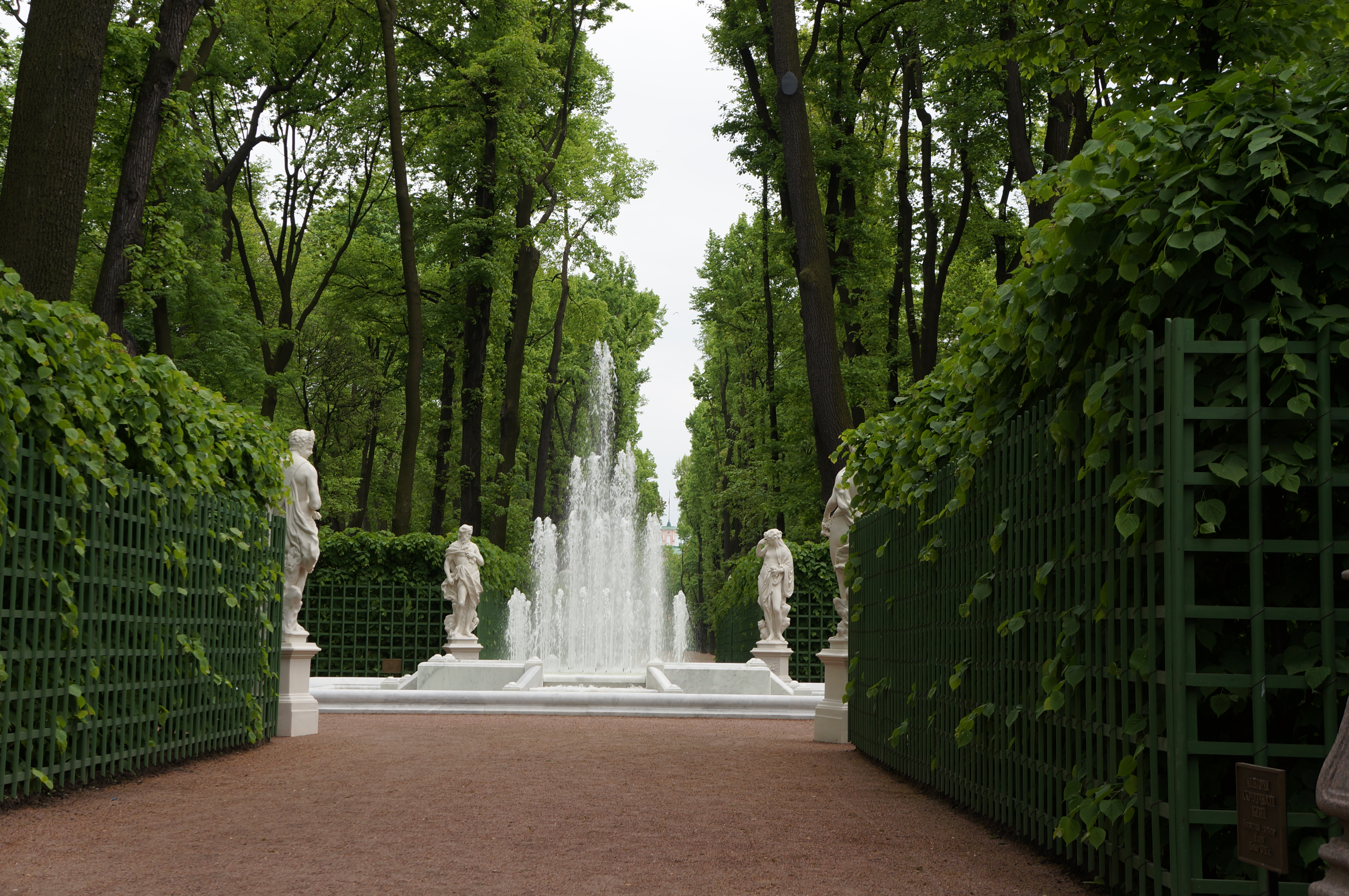 Летний сад. Фонтан "Пирамида" на Центральной аллее. 2012